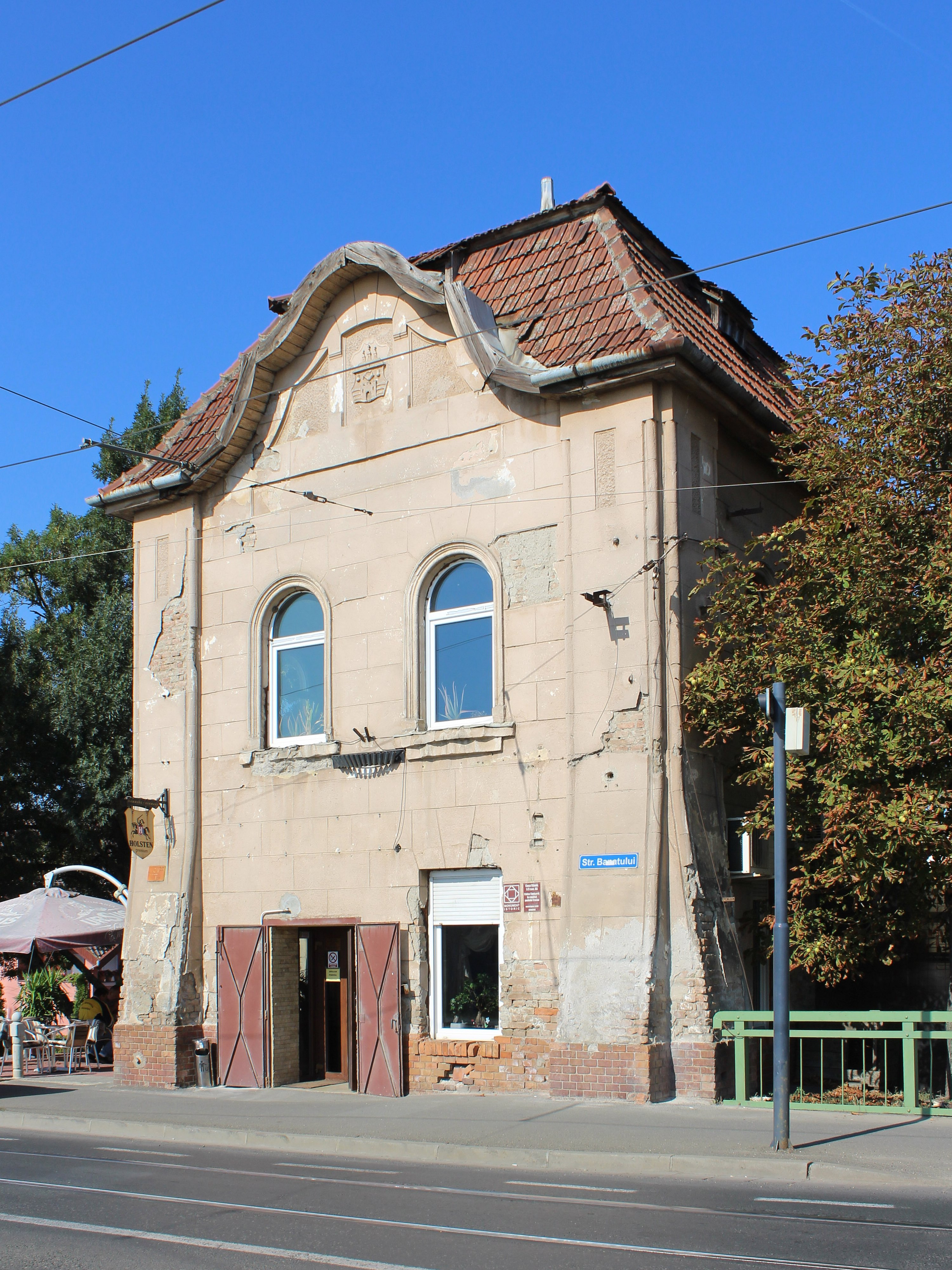 House of the former customs in Arad, Romania, built 1907